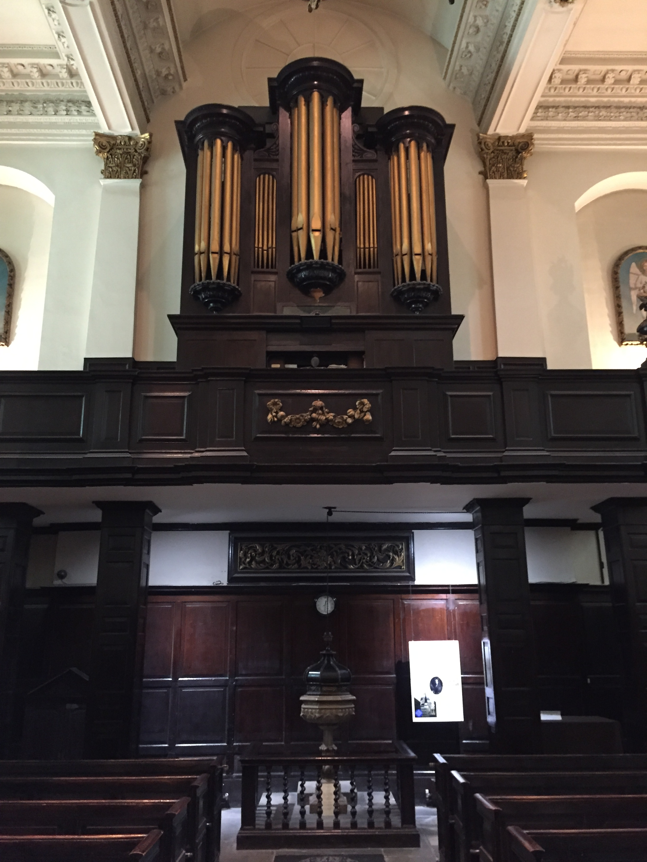 Organ is considered to be by Father Harris.